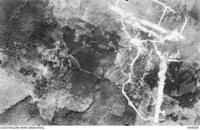 SANDAKAN, BORNEO, 1944. AERIAL VIEW OF THE JAPANESE PRISONER OF WAR (POW) CAMP.